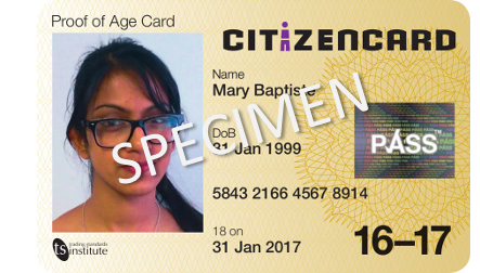 CitizenCard photoID card for 16 to 17s